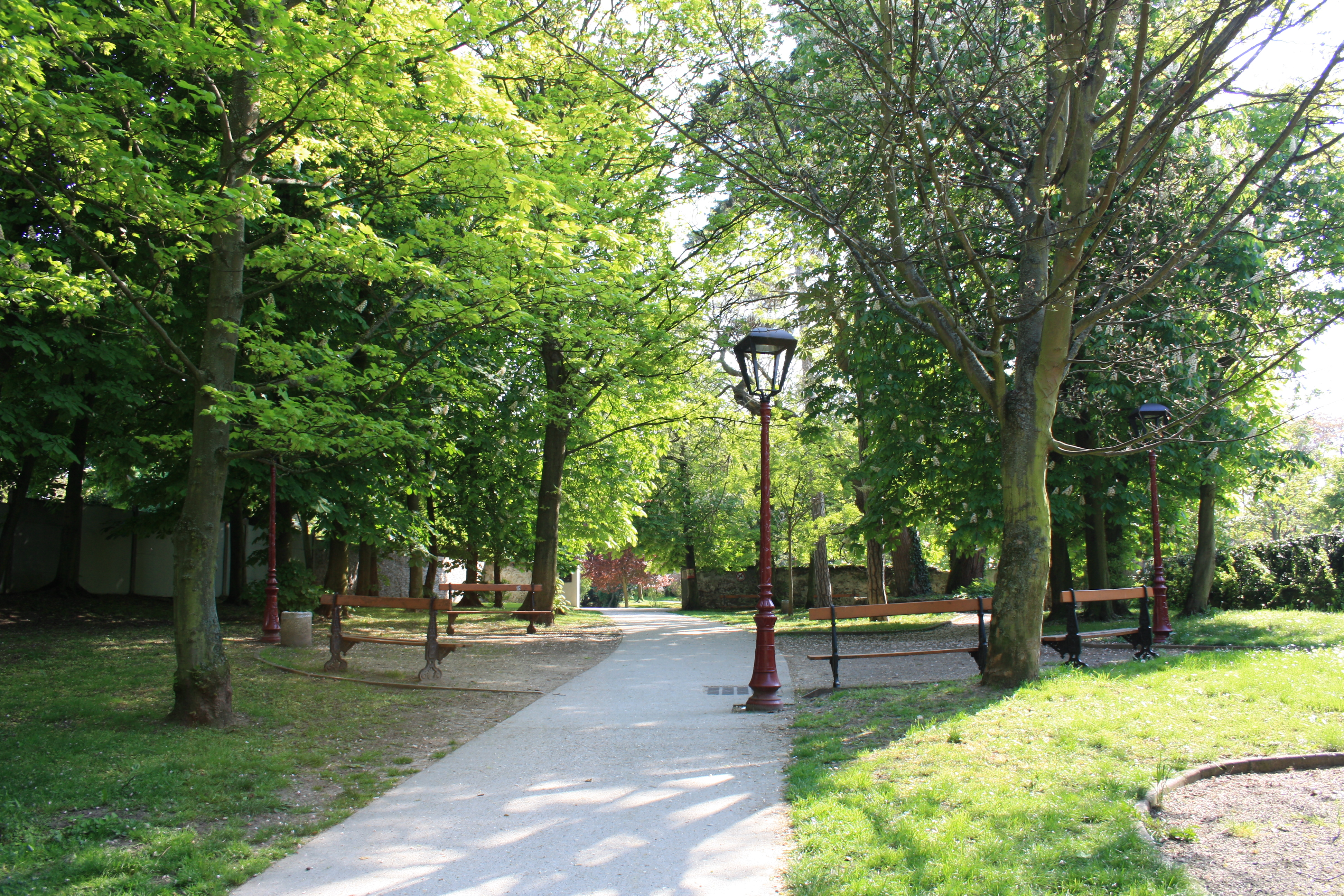 Park André Villette in Fresnes near Paris, France